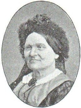 Swedish ballet dancer and actress Karolina Bock. Image from "Svenskt porträttgalleri / XXI. Tonkonstnärer och sceniska artister (biografier af Adolf Lindgren & Nils Personne)"